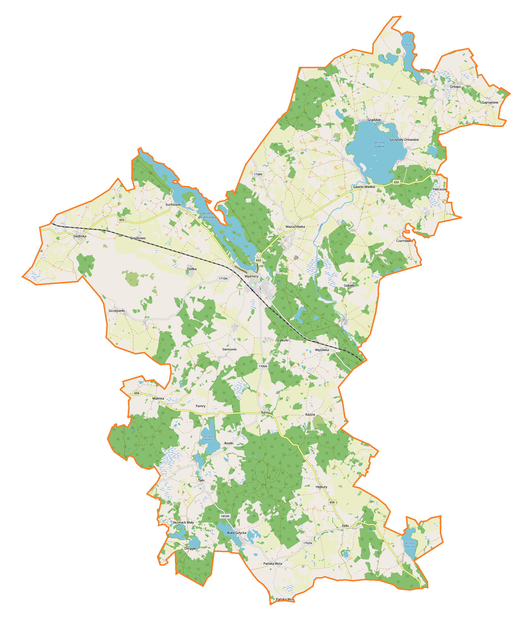 Location map